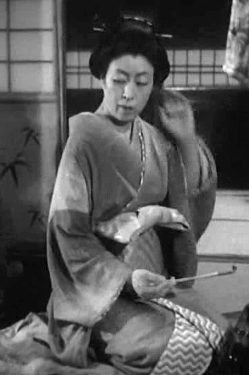 Screenshot from The Life of Oharu, 1952 film.